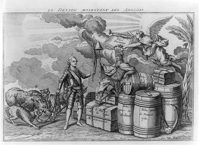 Caricature of French admiral Charles Henri d'Estaing (1729-1794). Caption in